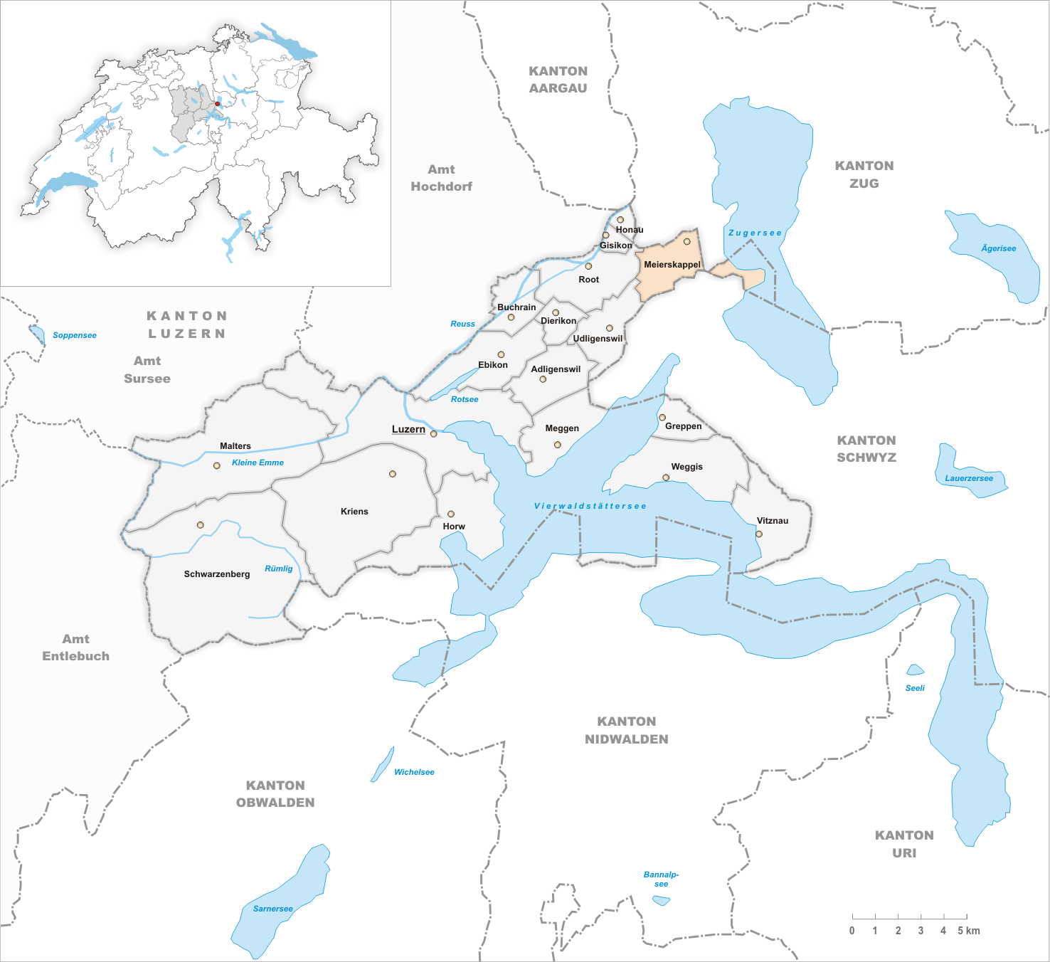 Municipality Meierskappel